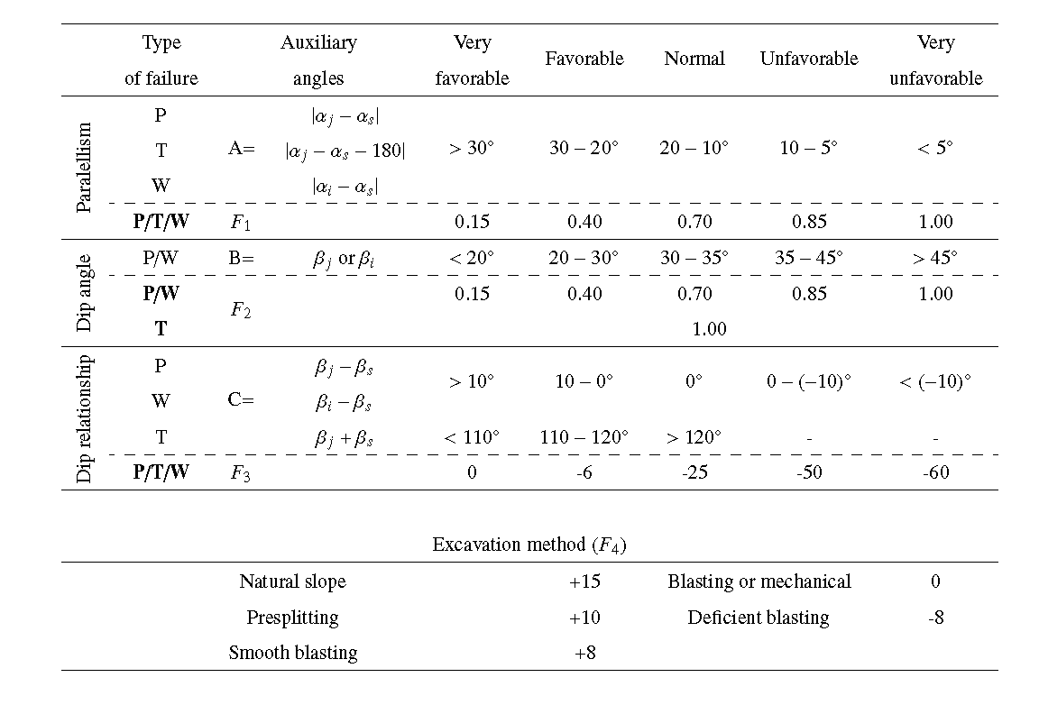 Adjustment factors for SMR. P: planar failure; T: toppling failure; W: wedge failure. $F_1$: parallelism between joints and slope; $F_2$: dip angle in the planar mode of failure; $F_3$: relationship between slope and joints dips $\alpha_j$: dip direction of the discontinuity; $\alpha_s$: dip direction of the slope; $\alpha_i$: trend of the intersection line of two sets of discontinuities; $\beta_s$: slope dip; $\beta_j$: discontinuity dip; $\beta_i$: plunge of the intersection line of two sets of discontinuities.